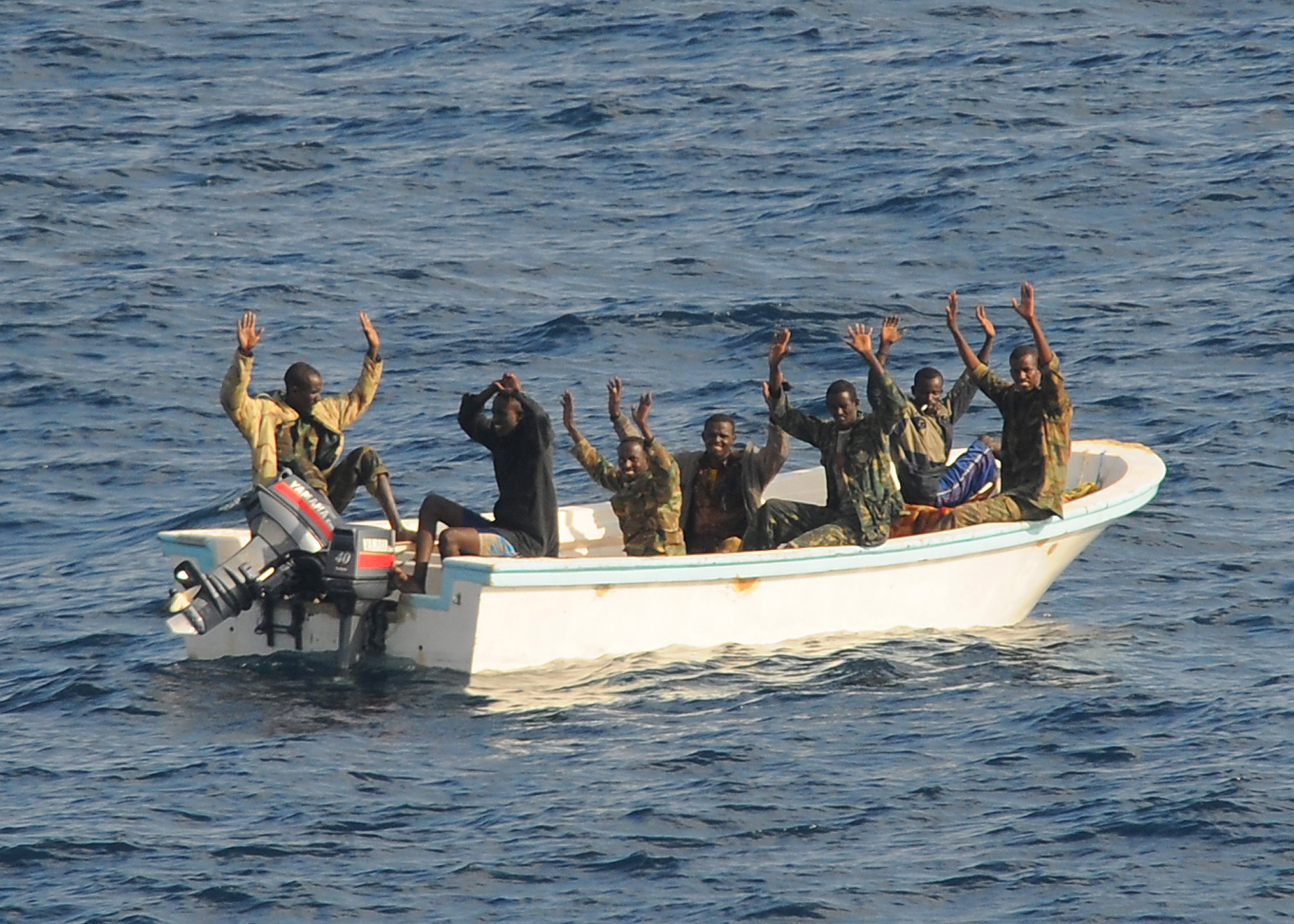 090211-N-1082Z-111 GULF OF ADEN (Feb. 11, 2009) Suspected pirates keep their hands in the air as directed by the guided-missile cruiser USS Vella Gulf (CG-72) as the visit, board, search and seizure (VBSS) team prepares to apprehend them. Vella Gulf is the flagship for Combined Task Force 151, a multi-national task force conducting counterpiracy operations to detect and deter piracy in and around the Gulf of Aden, Arabian Gulf, Indian Ocean and Red Sea. It was established to create a maritime lawful order and develop security in the maritime environment. (U.S. Navy photo by Mass Communications Specialist 2nd Class Jason R. Zalasky/Released)